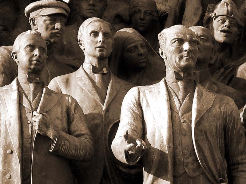 Detail of the central statue on the Taksim Square, Istanbul